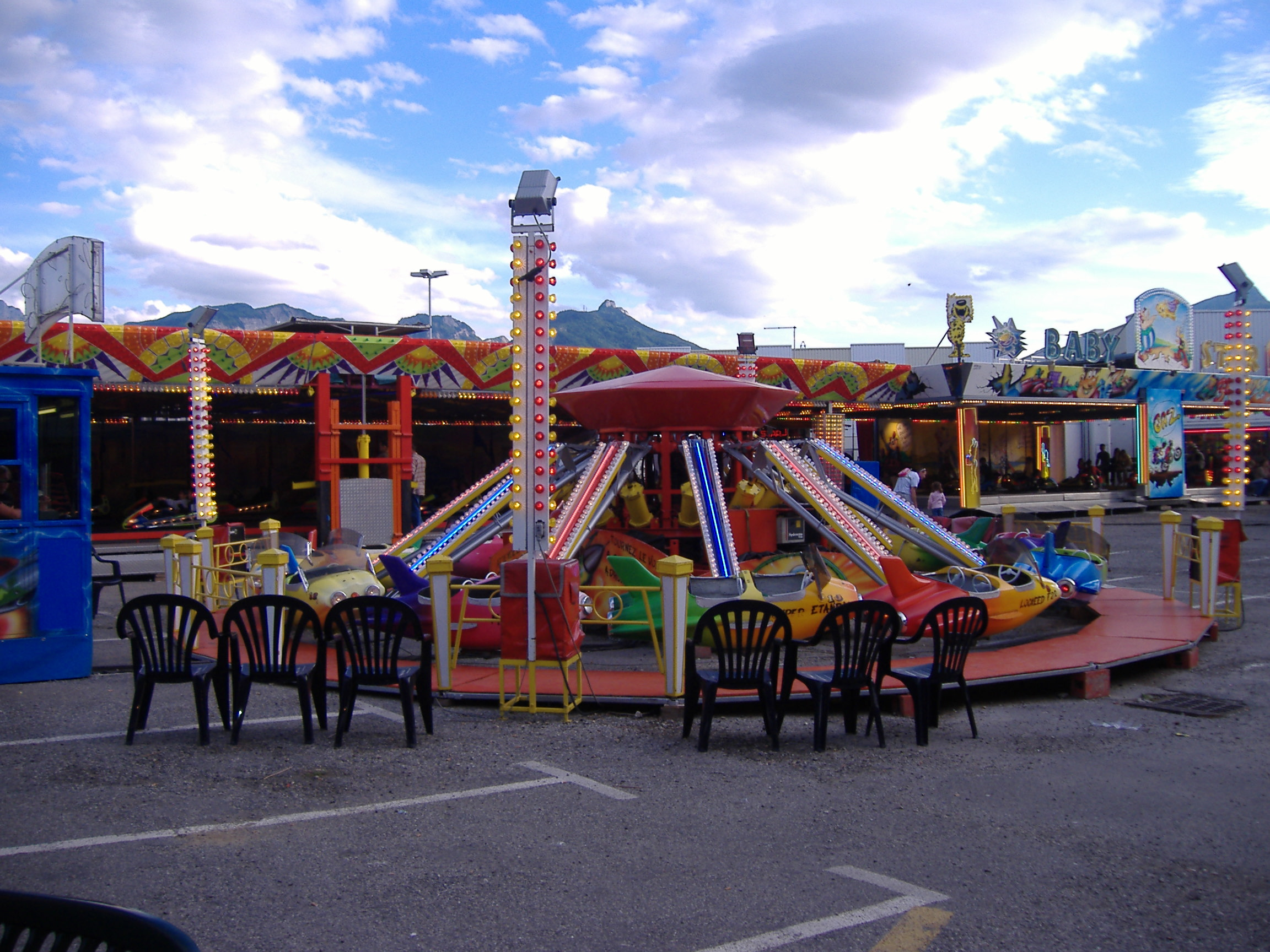 The Luna Park of Chambéry on March 11, 2005.